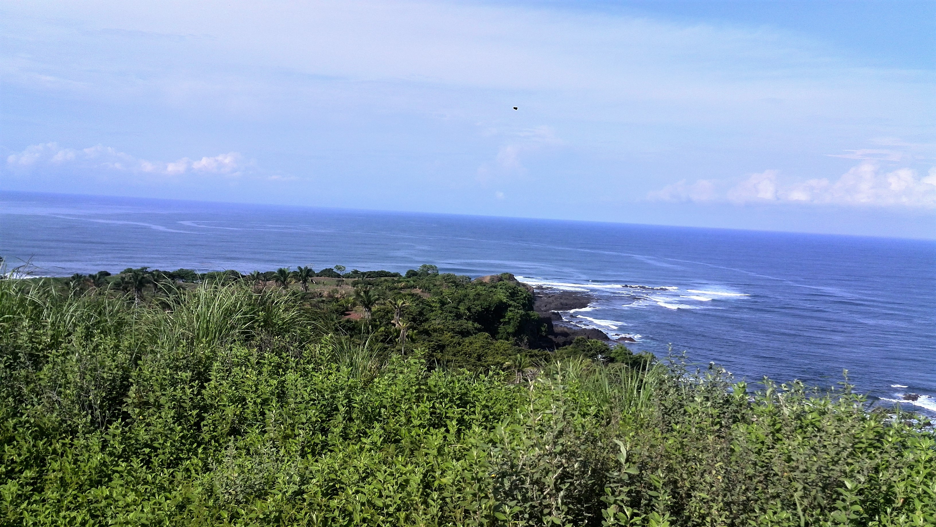 Punta Coyote Costa Rica